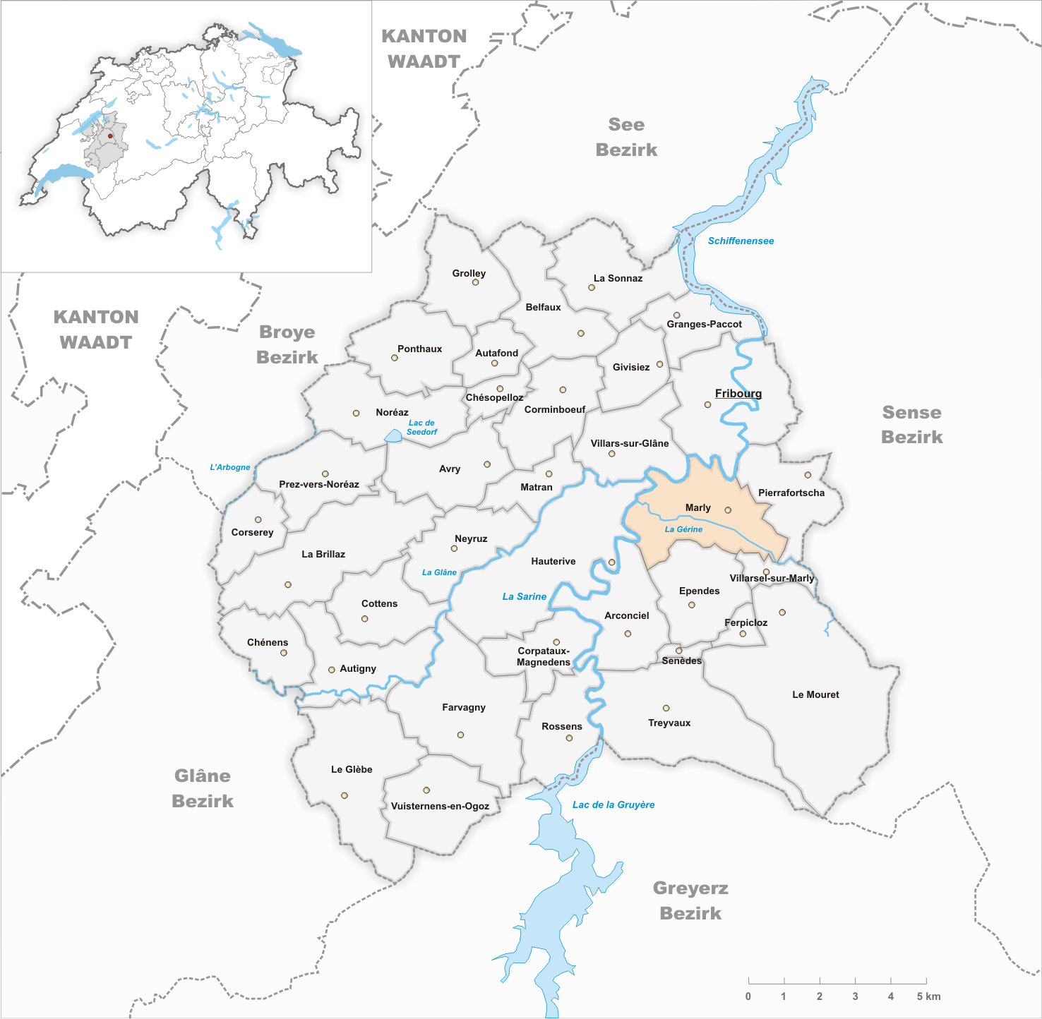 Municipality Marly